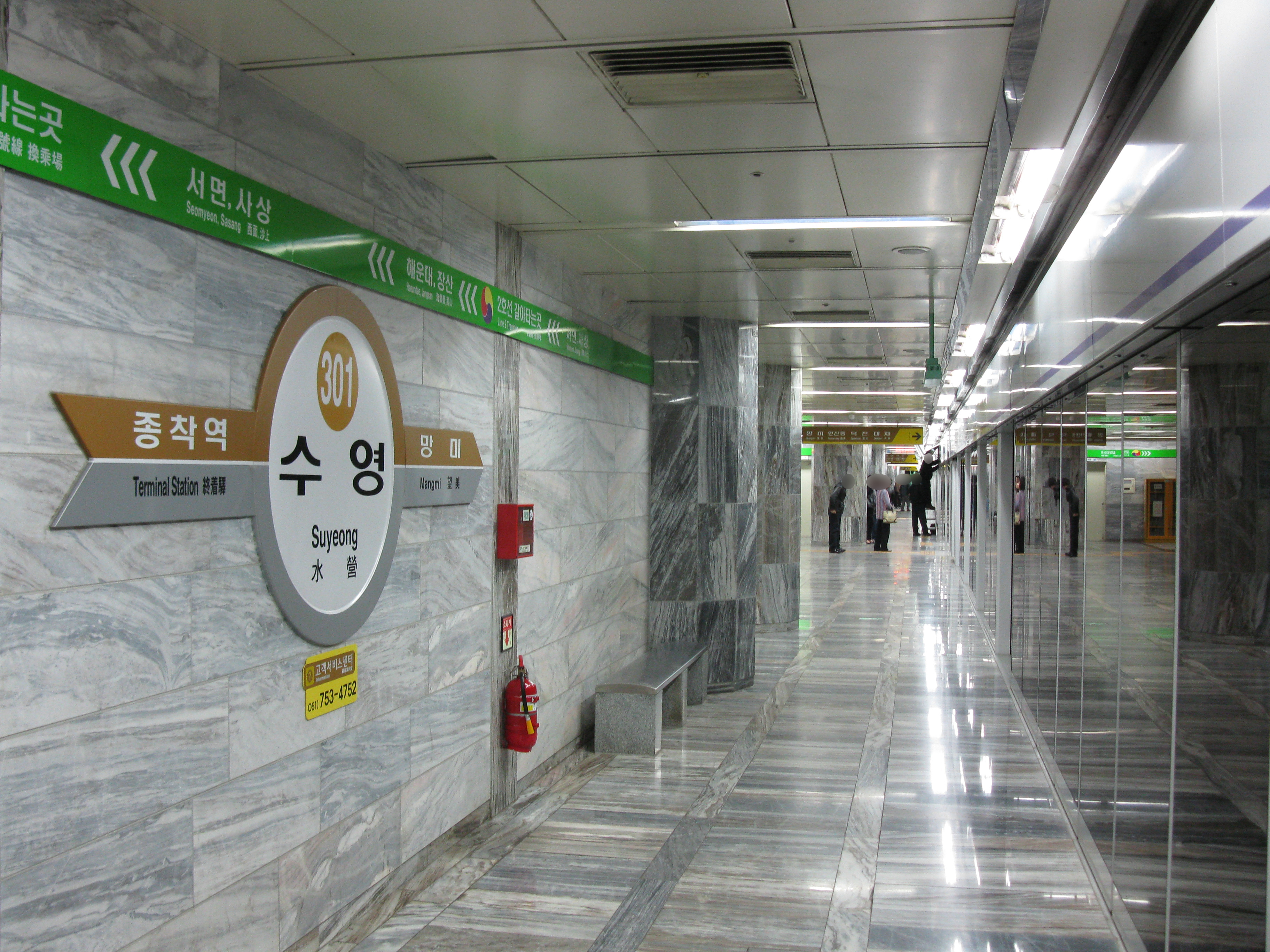 The platform at Suyeong Station on the Busan Subway Line 3 in Busan, Republic of Korea